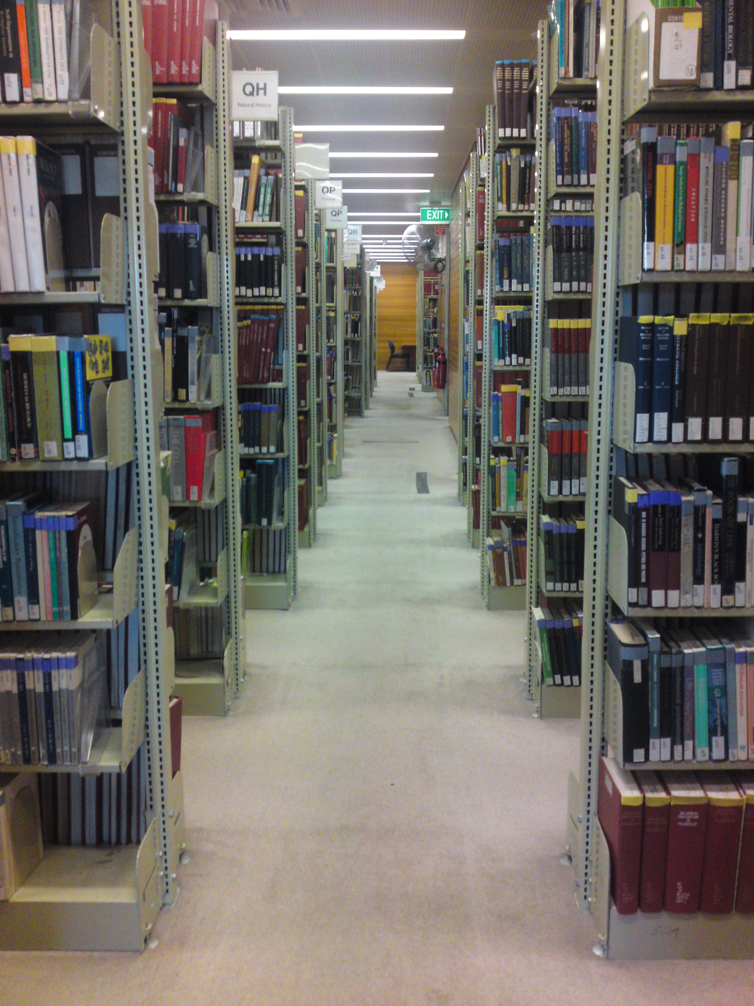 Library bookshelves in the old Macquarie University Library building.